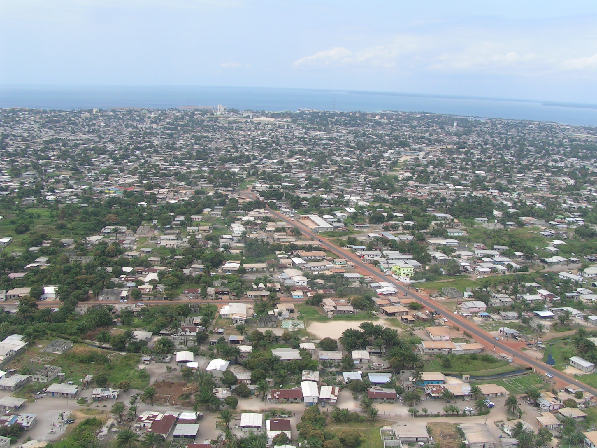 Port-Gentil, Gabon as viewed from helicopter above town.